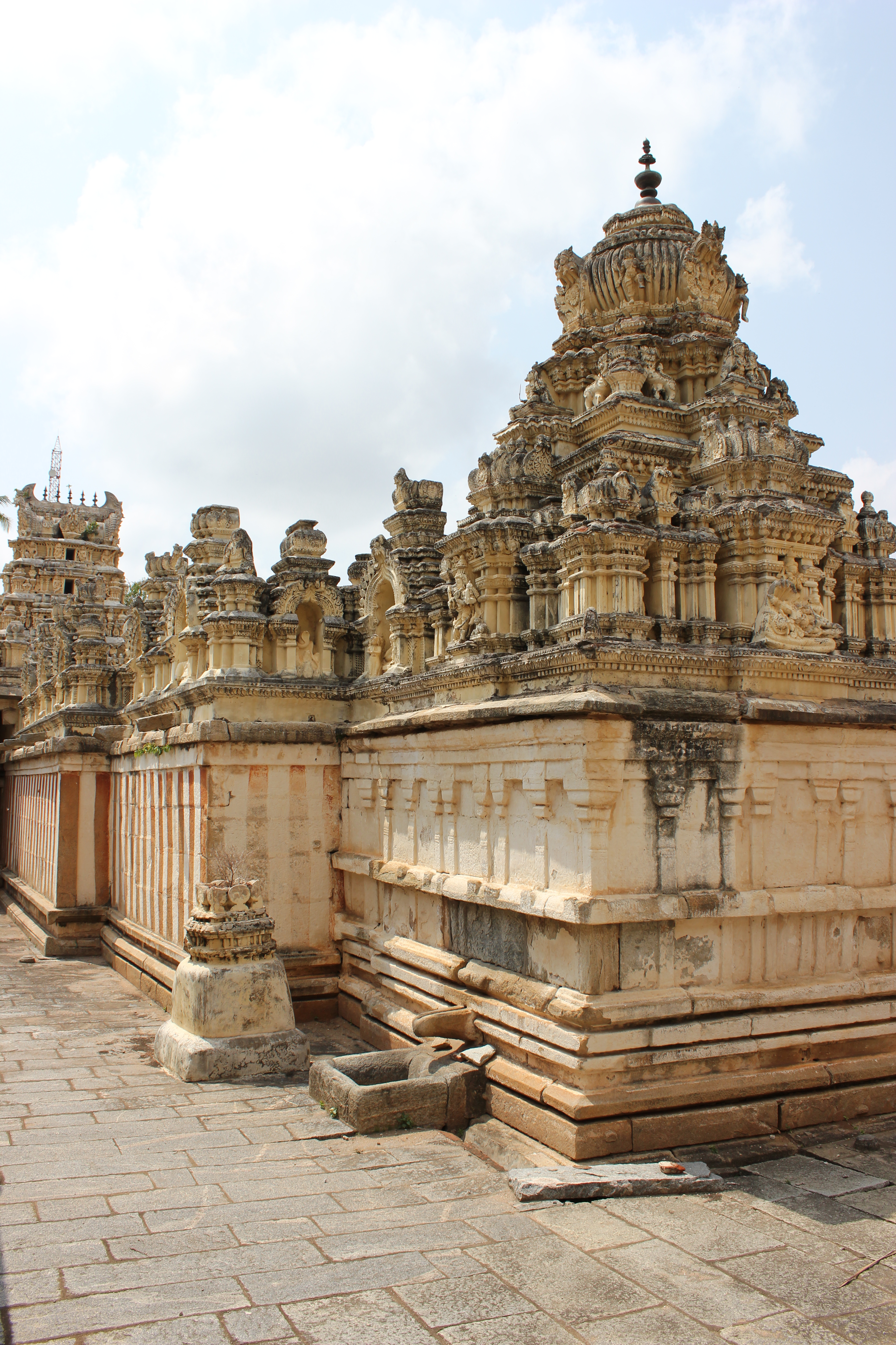 The Lakshmikantha temple is located in Kalale, Mysore district, Karnataka state, India